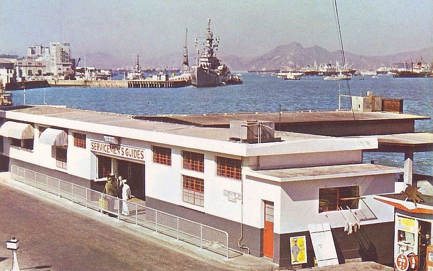 The Fenwick Pier was originally located at the waterfront of Gloucester Road, along with the nearby Servicemen's Guides Association. The Royal Navy Dockyard in Admiralty was at the background.